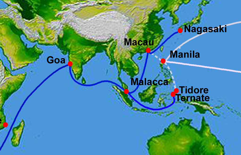 "Viagem do Japão" (Japan's travel) portuguese 16th-17th century trade route (blue) linking Goa to Nagasaki